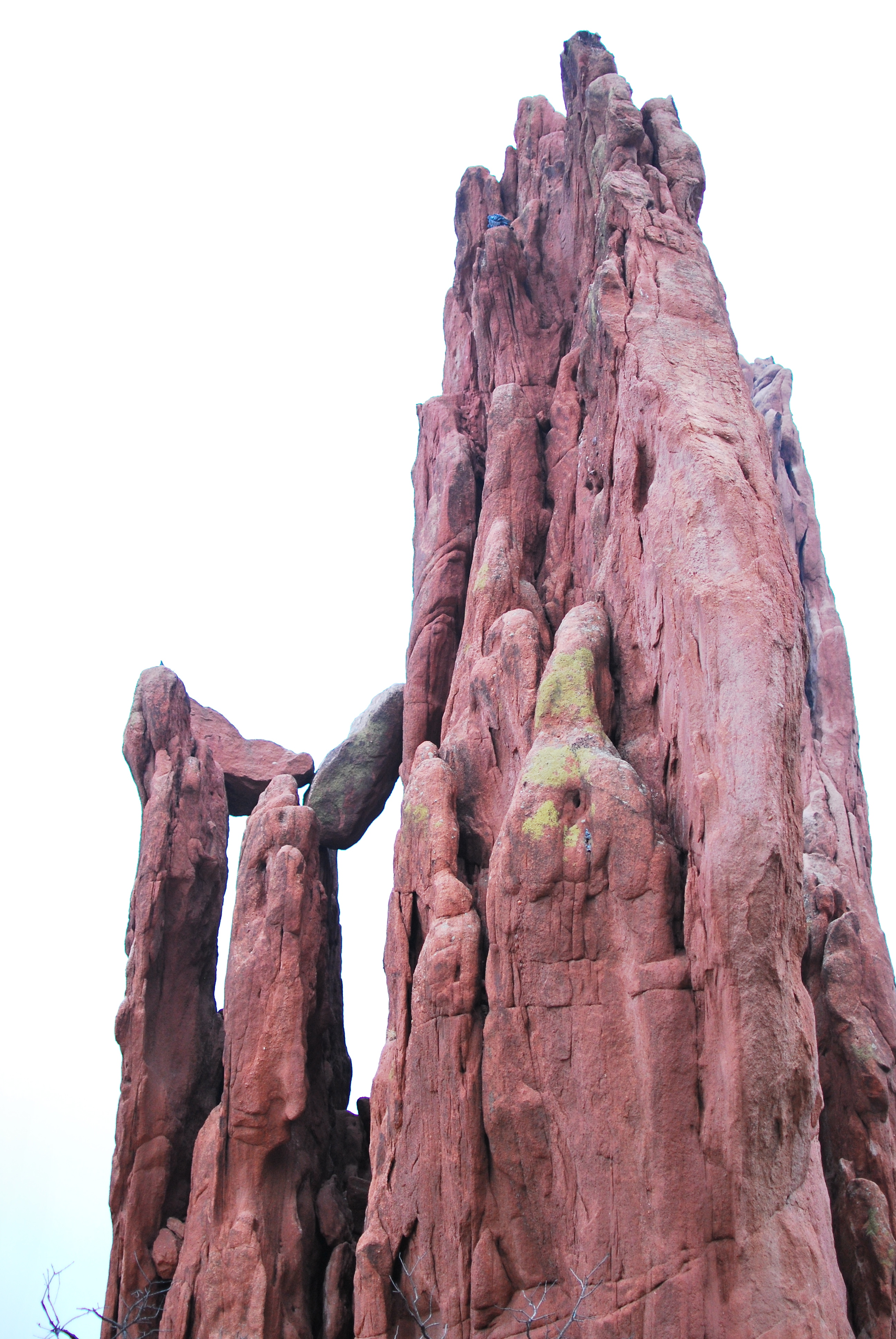 a segment of the "Cathedral Spires" formation, Garden of the Gods, Colorado